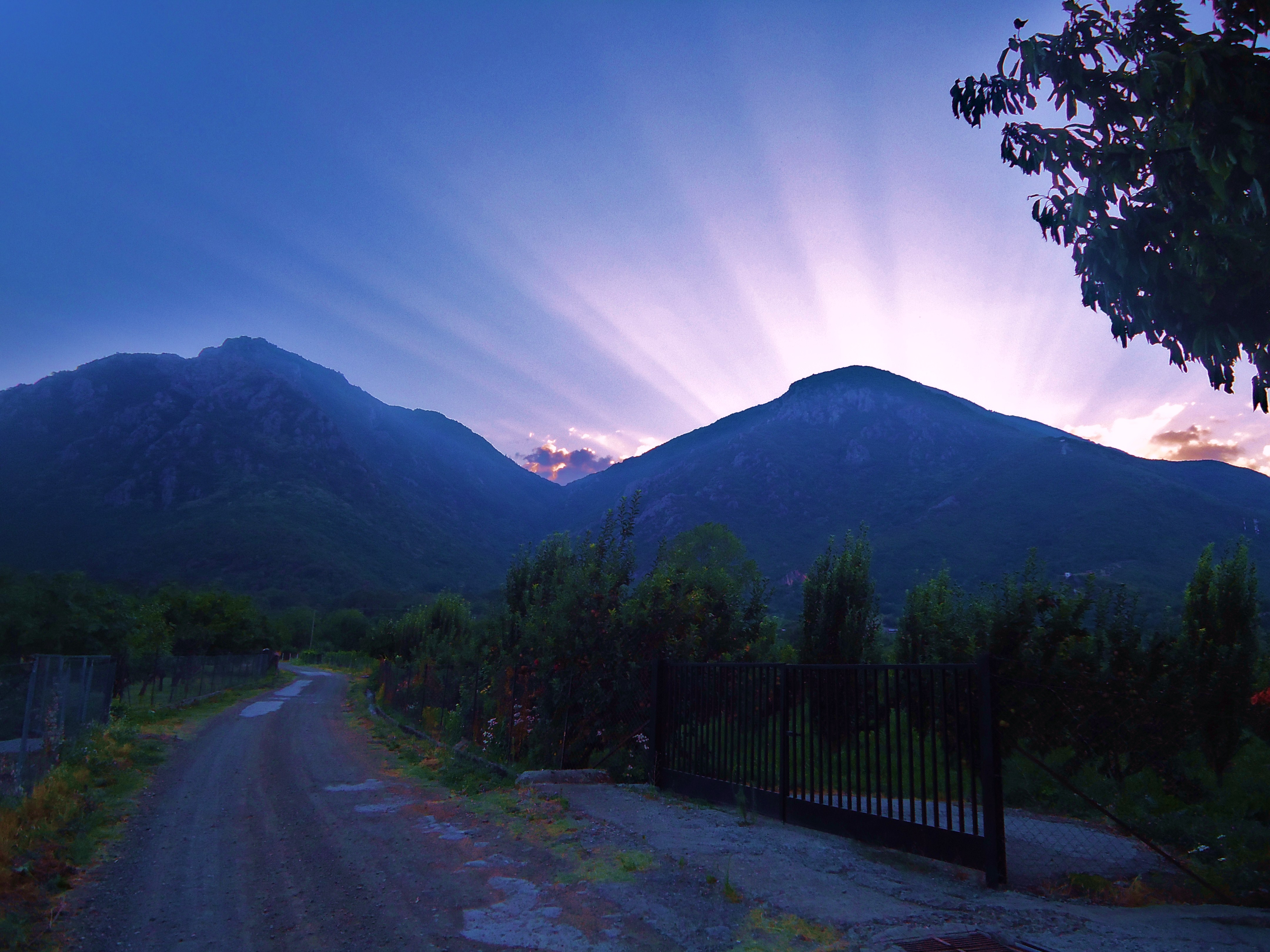 Mountain Vermion as seen from Saint Nicholas, Naousa